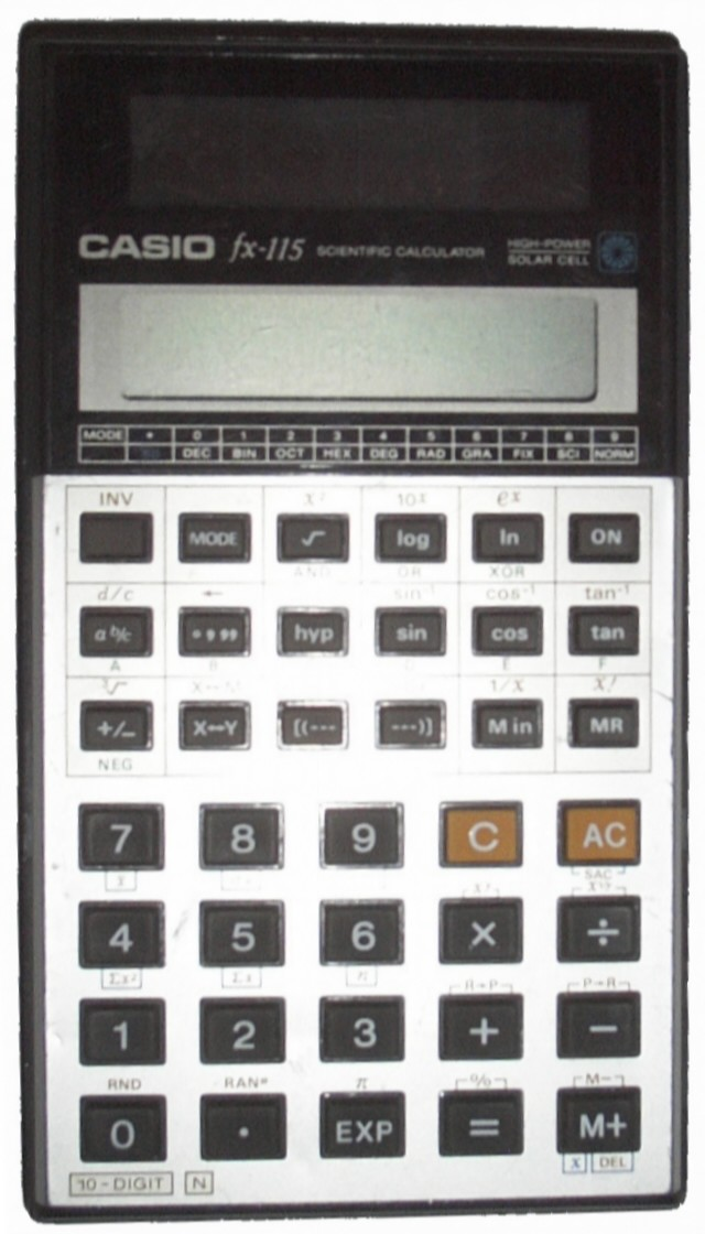 Solar cell powered calculator "Casio fx-115".